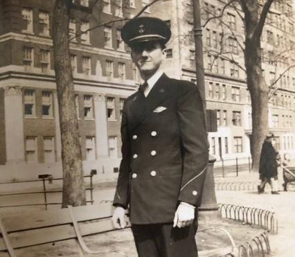 Leslie Nicholas Jr. of the US Merchants Marine in 1947